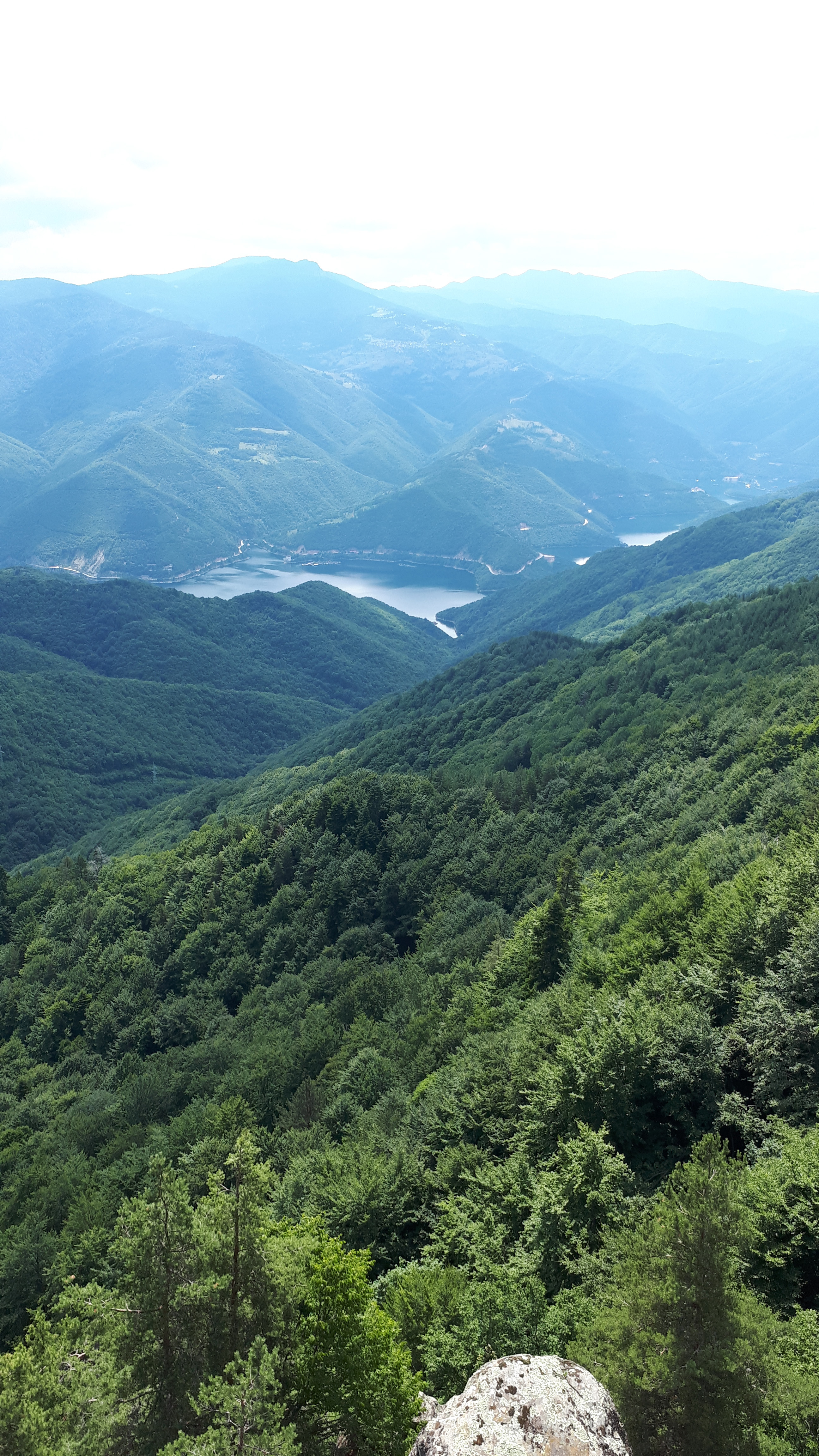 Bekovi skali, Bulgaria